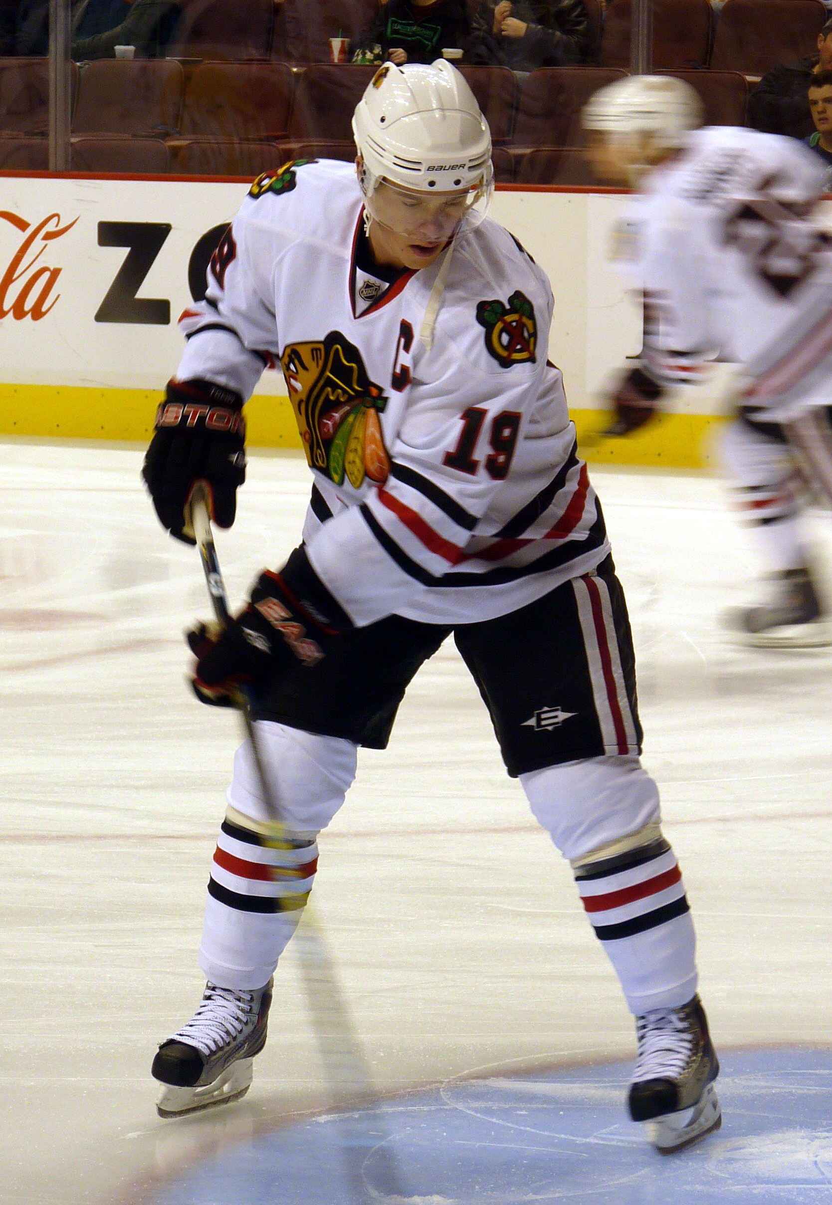 Chicago Blackhawks captain Jonathan Toews during a game against the Vancouver Canucks at GM Place on November 22, 2009.